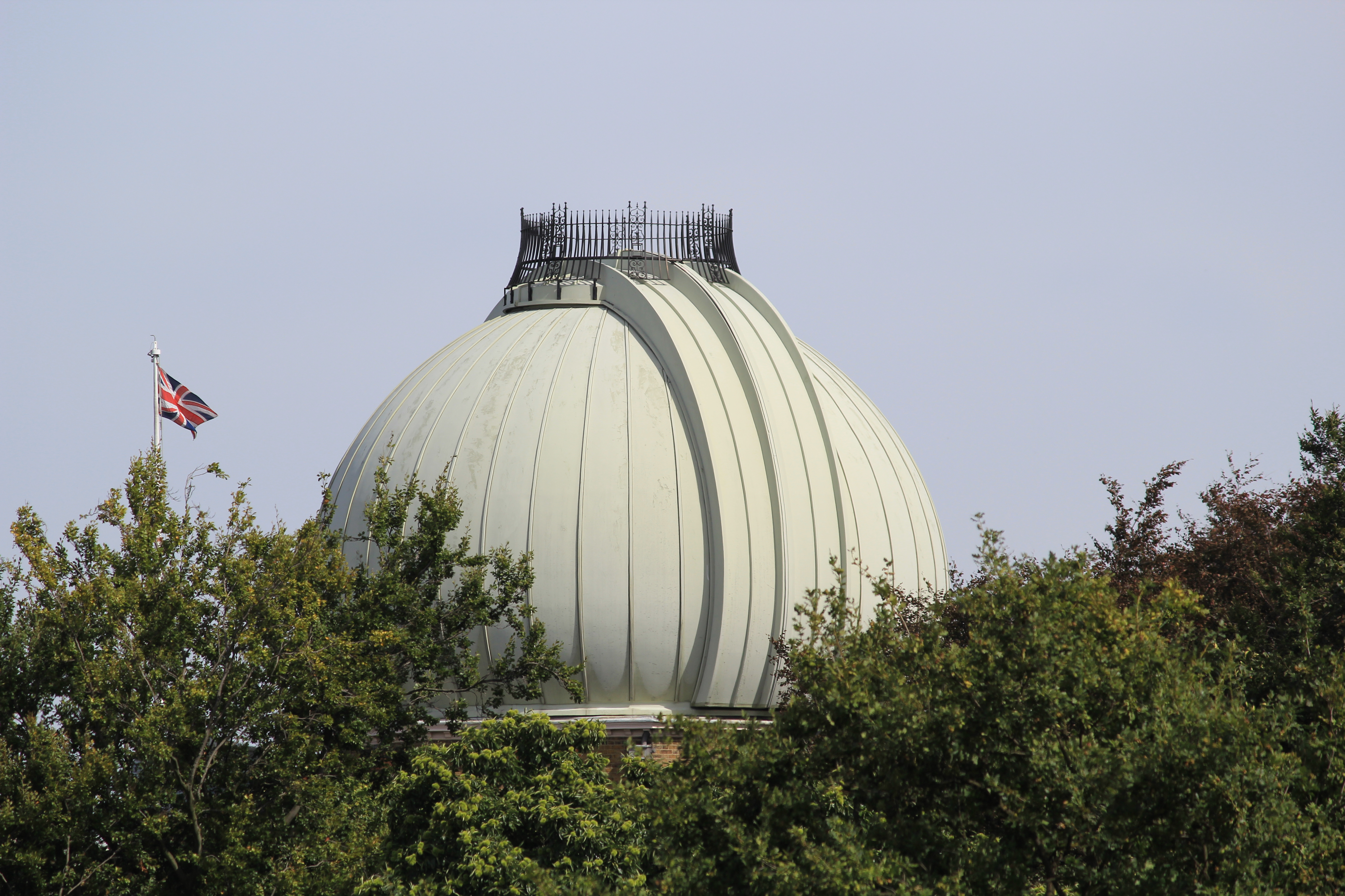 Royal Observatory Former Great Equatorial Building